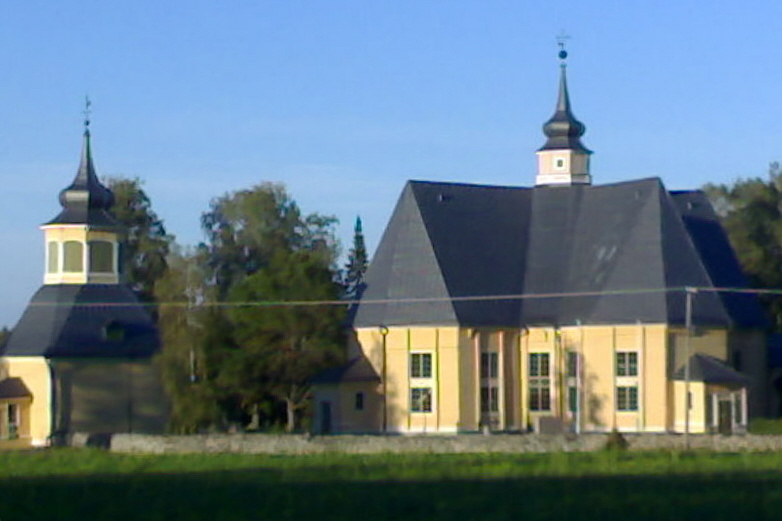 Church of Ruovesi in Ruovesi, Finland